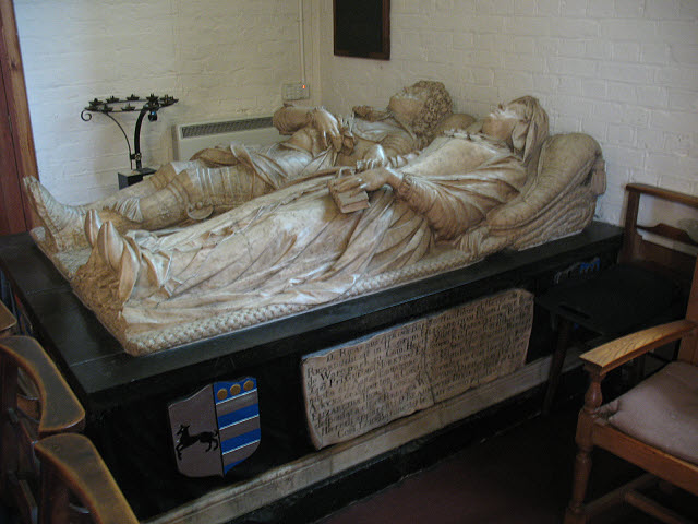 The Atkins tomb in St Paul's, Clapham. One of several impressive tombs in St Paul's church 337493, this one is of Sir Richard Atkins, Baronet, and his wife. It dates from the 17th century and must therefore have come from the former Holy Trinity church that was replaced by the present St Paul's in 1815.